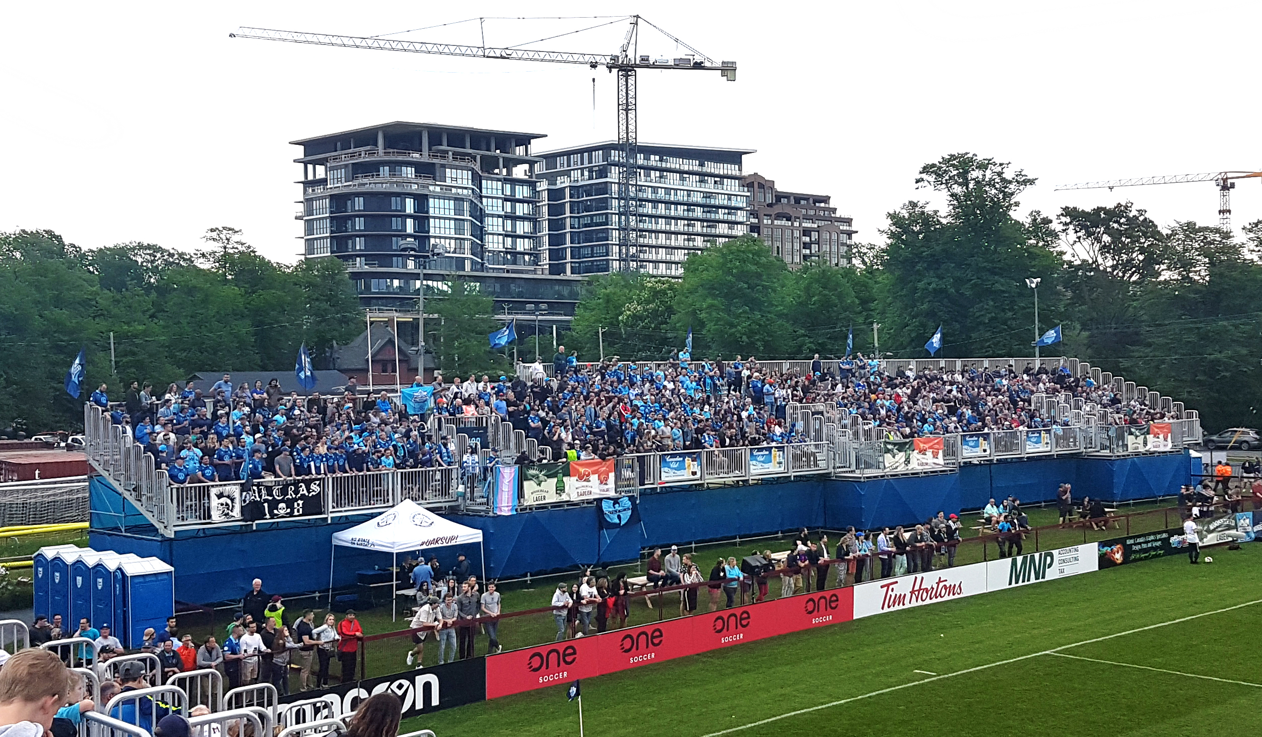 Full Album: HFX Wanderers FC - Cavalry FC 06/19/2019 "The Kitchen", supporters section at Wanderers Ground during a match between HFX Wanderers FC and Cavalry FC on June 19, 2019, in Halifax, Nova Scotia, Canada.